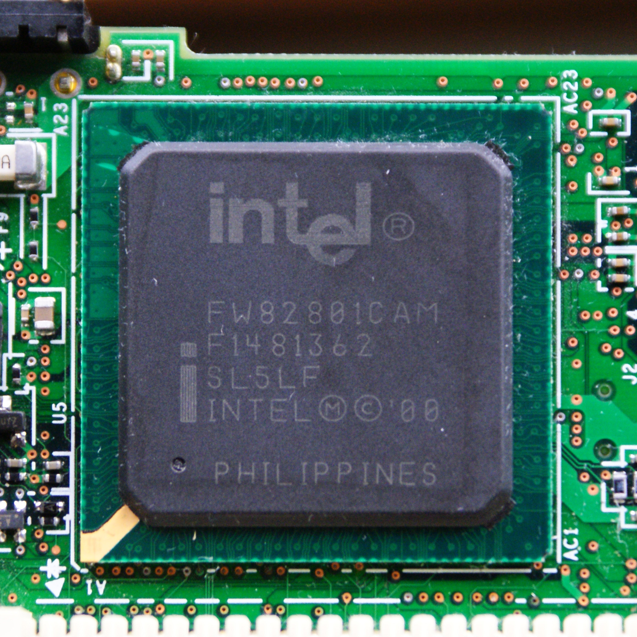 intel i82801CAM ICH3M I/O Controller Hub